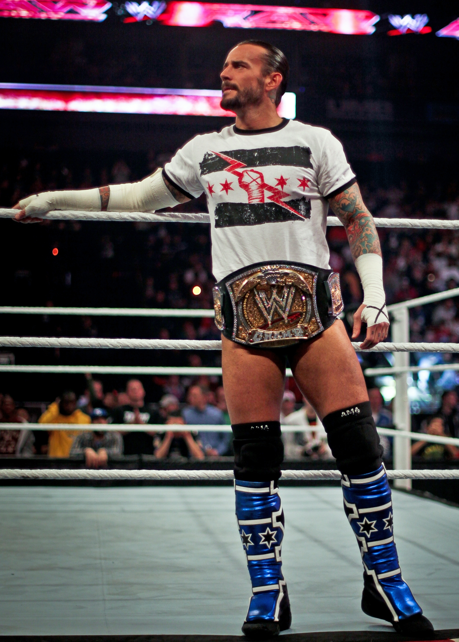 CM Punk during his second reign as WWE champion.